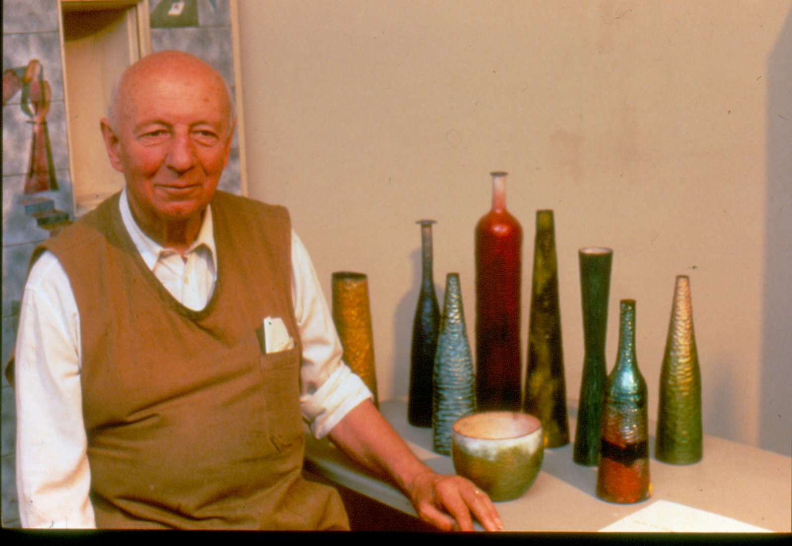 Paolo De Poli, enameler, born in Padua, Italy, in his studio in 1967.